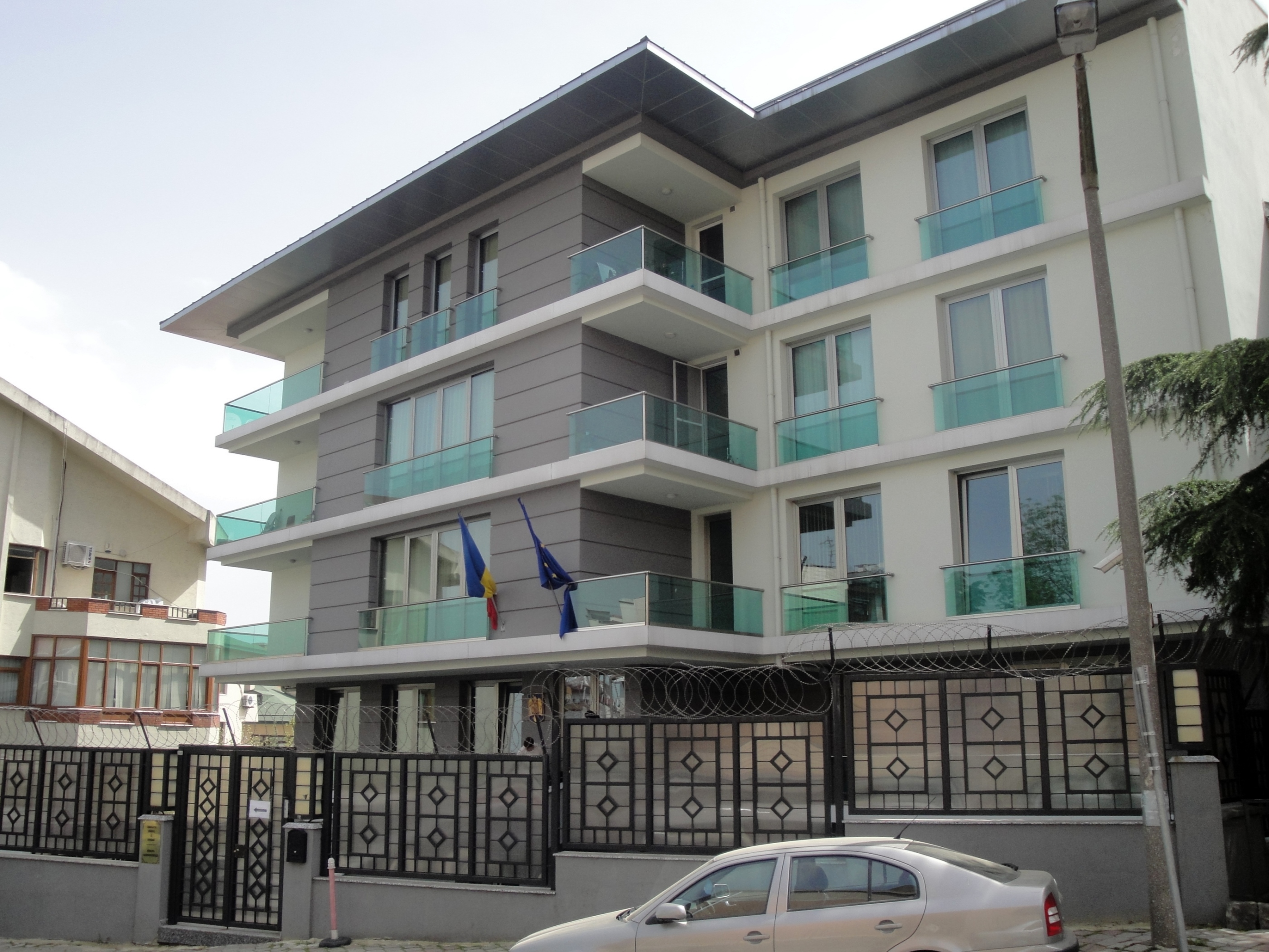 Romanian Consulate General Istanbul